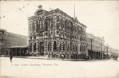 Cotton Exchange Building, Houston, Texas (1910) [note electric lines]